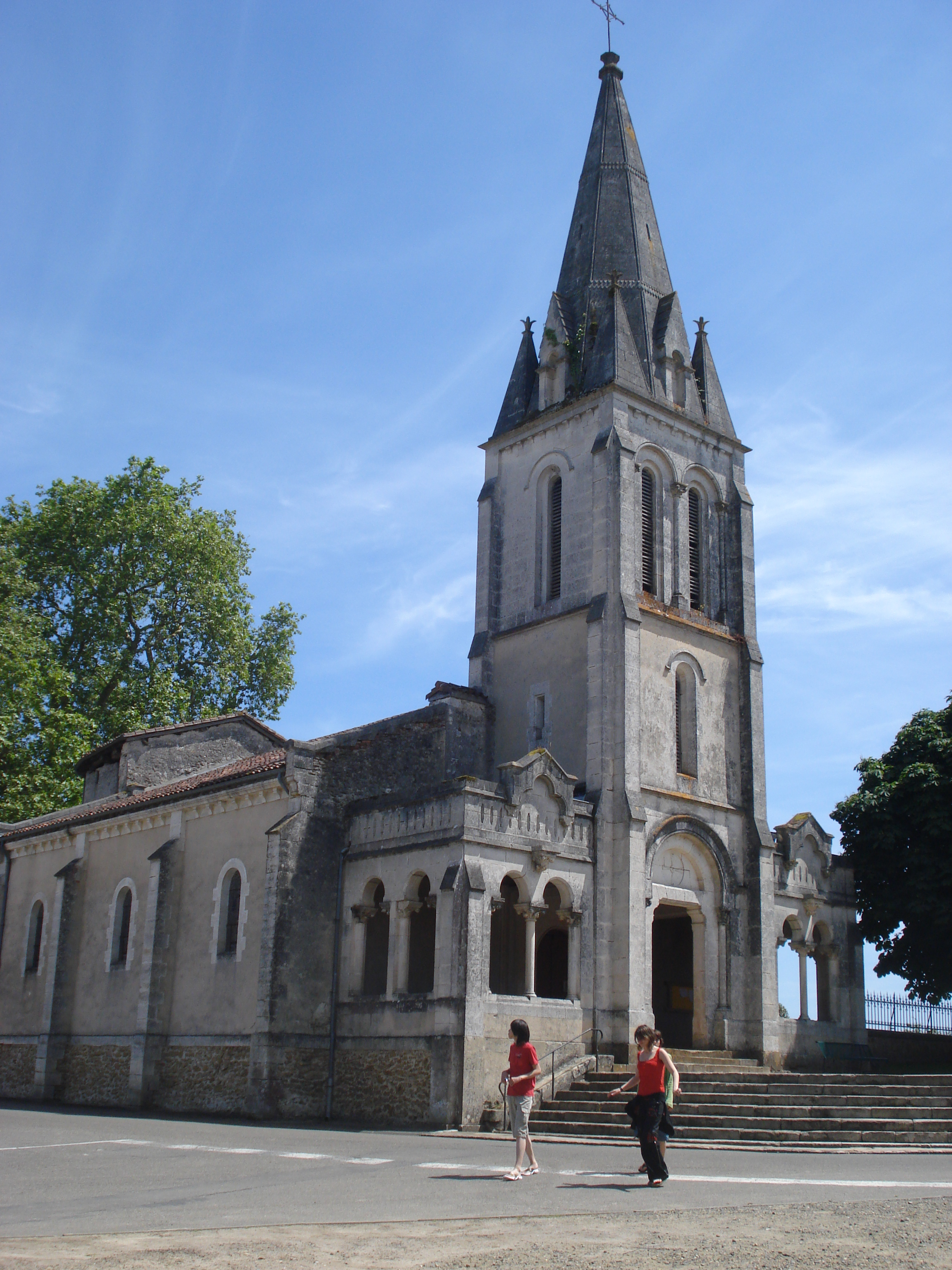 Gaillères (Landes, Fr) church